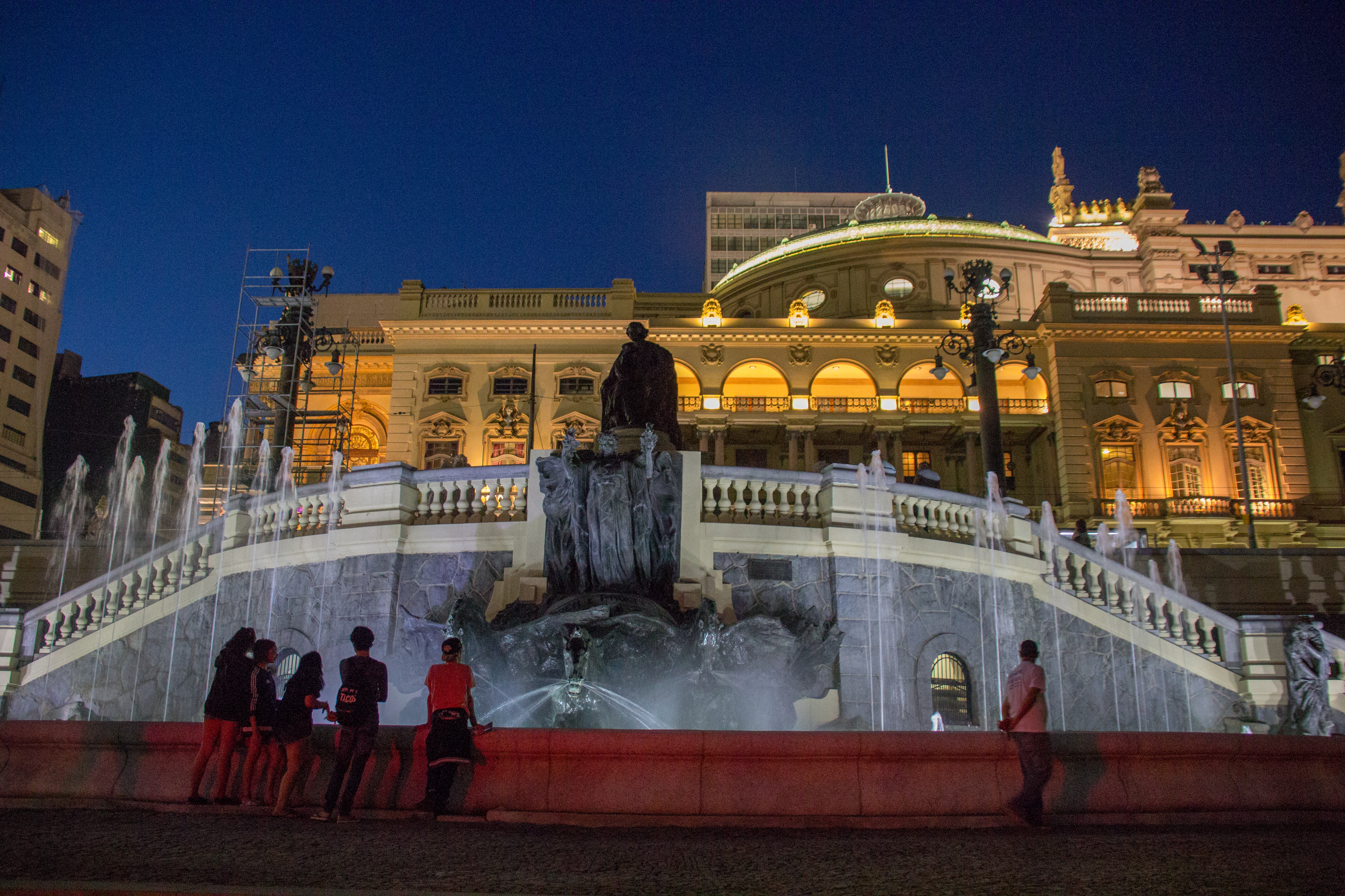 Caminhada Noturna, São Paulo, Brazil